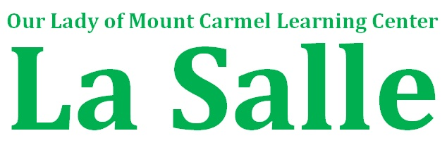 Logo during games